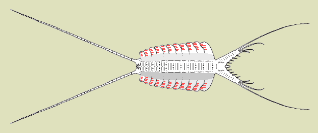 Kerygmachela viewed from above. Ref:Budd, G.E. (1993). "A Cambrian gilled lobopod from Greenland". Nature 364: 709–711.